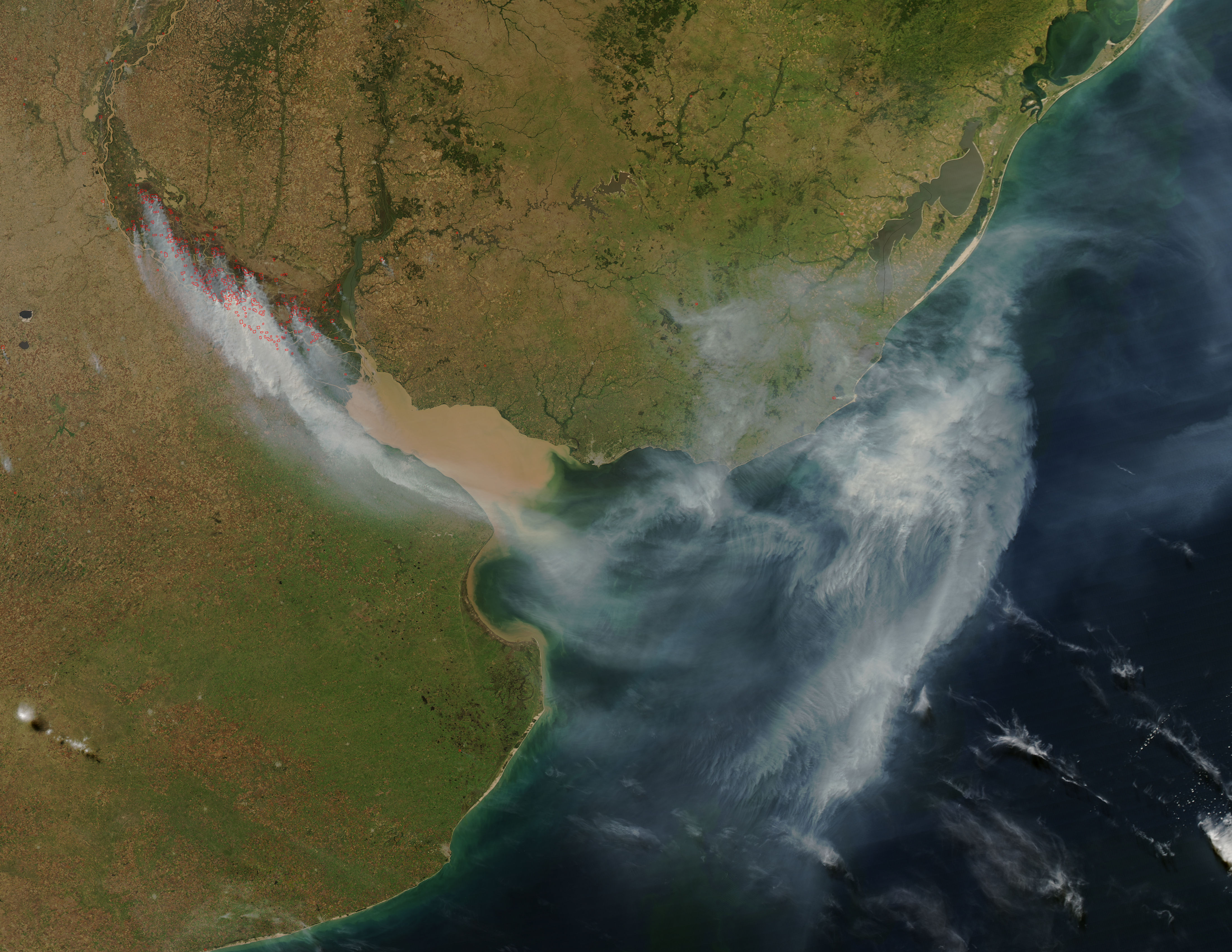 Fires and smoke over Argentina, seen from MODIS on the Aqua satellite at 2008/18/04 at 17:50 UTC. Scale: 1px=250m